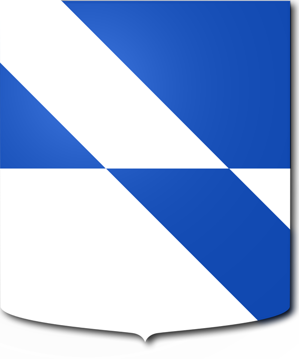 Bondumier